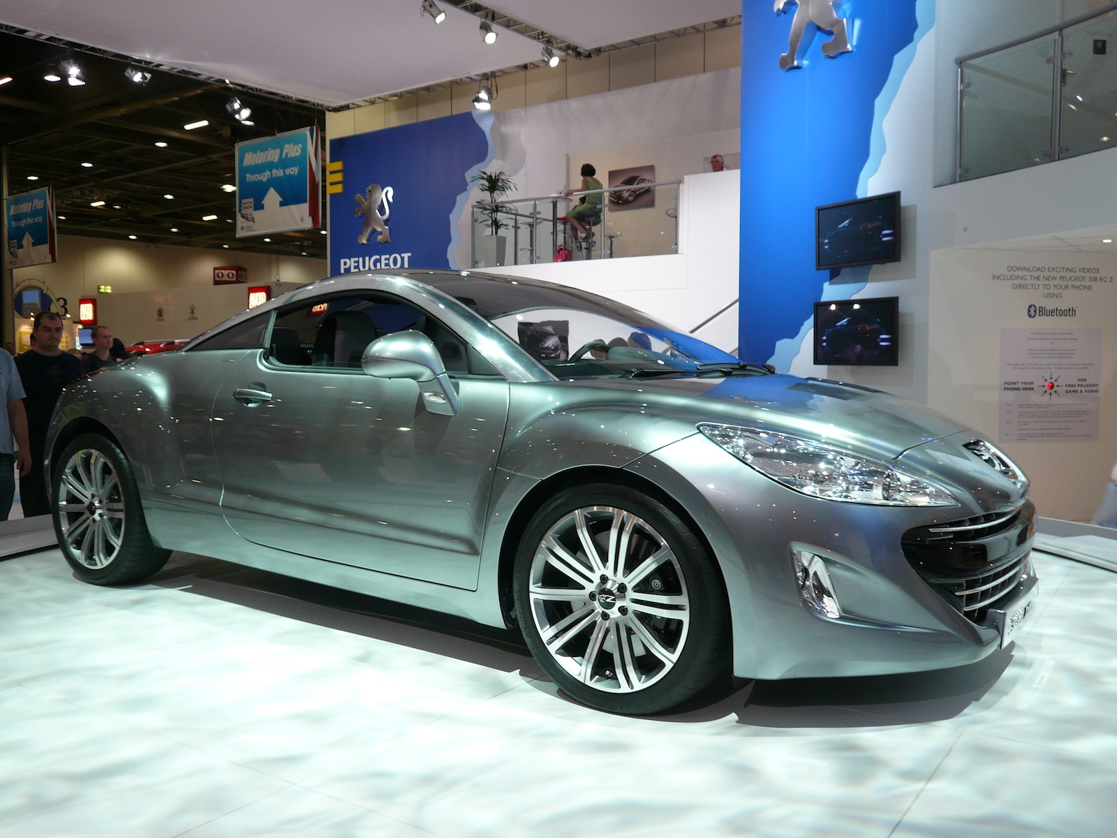 Lovely car - bet it doesn't look like this when it's made